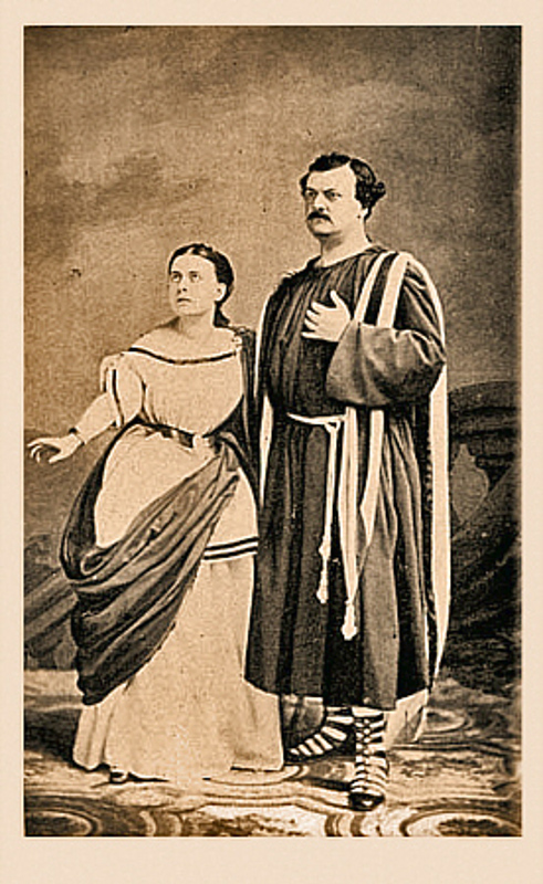 Marietta Piccolomini (5 Mar 1834 - 11 Dec 1899) and Pasquale Brignoli (1824 - 1884).